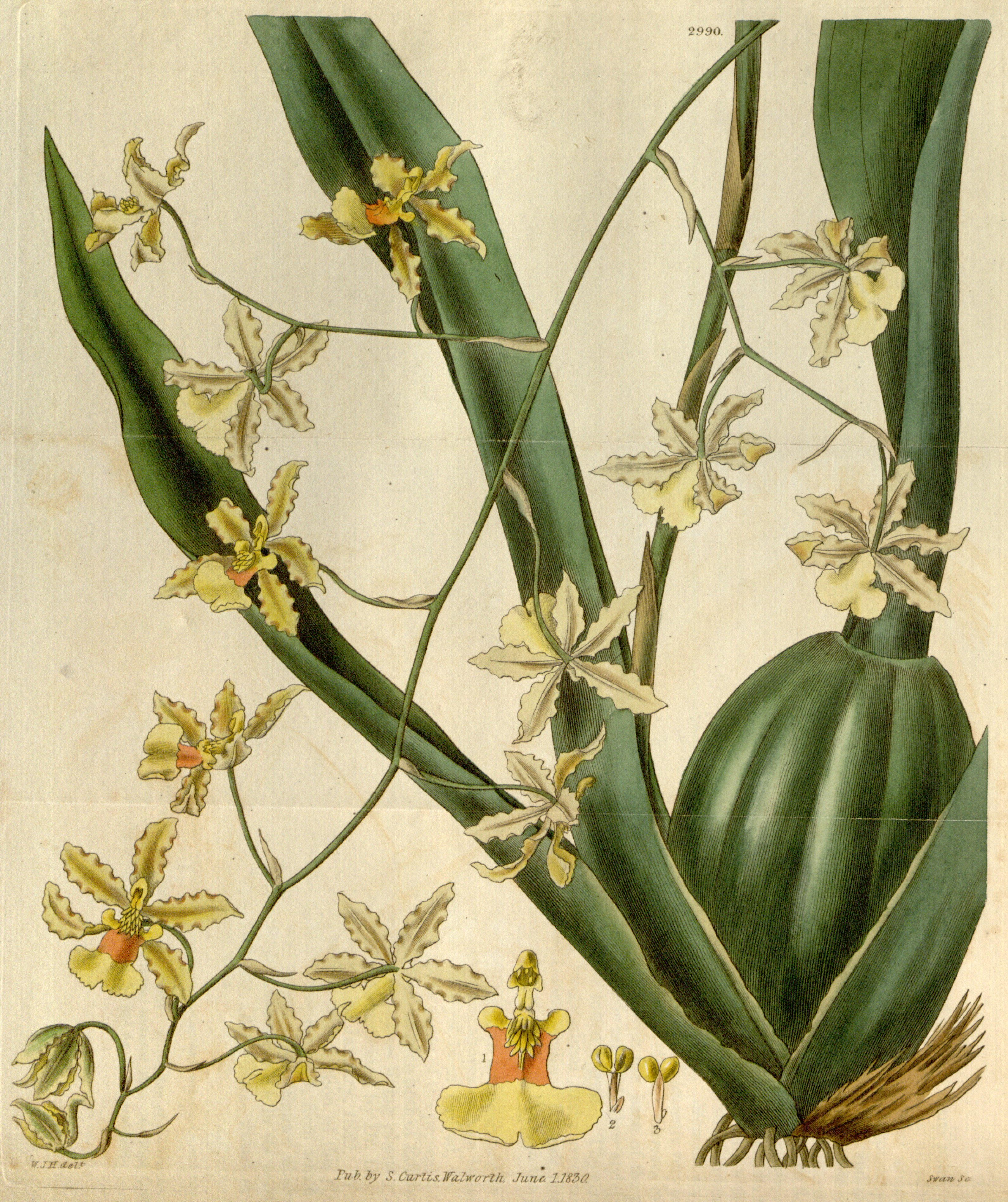 Illustration of Oncidium altissimum (This drawing is NOT Oncidium baueri, see disambiguation page Oncidium altissimum))